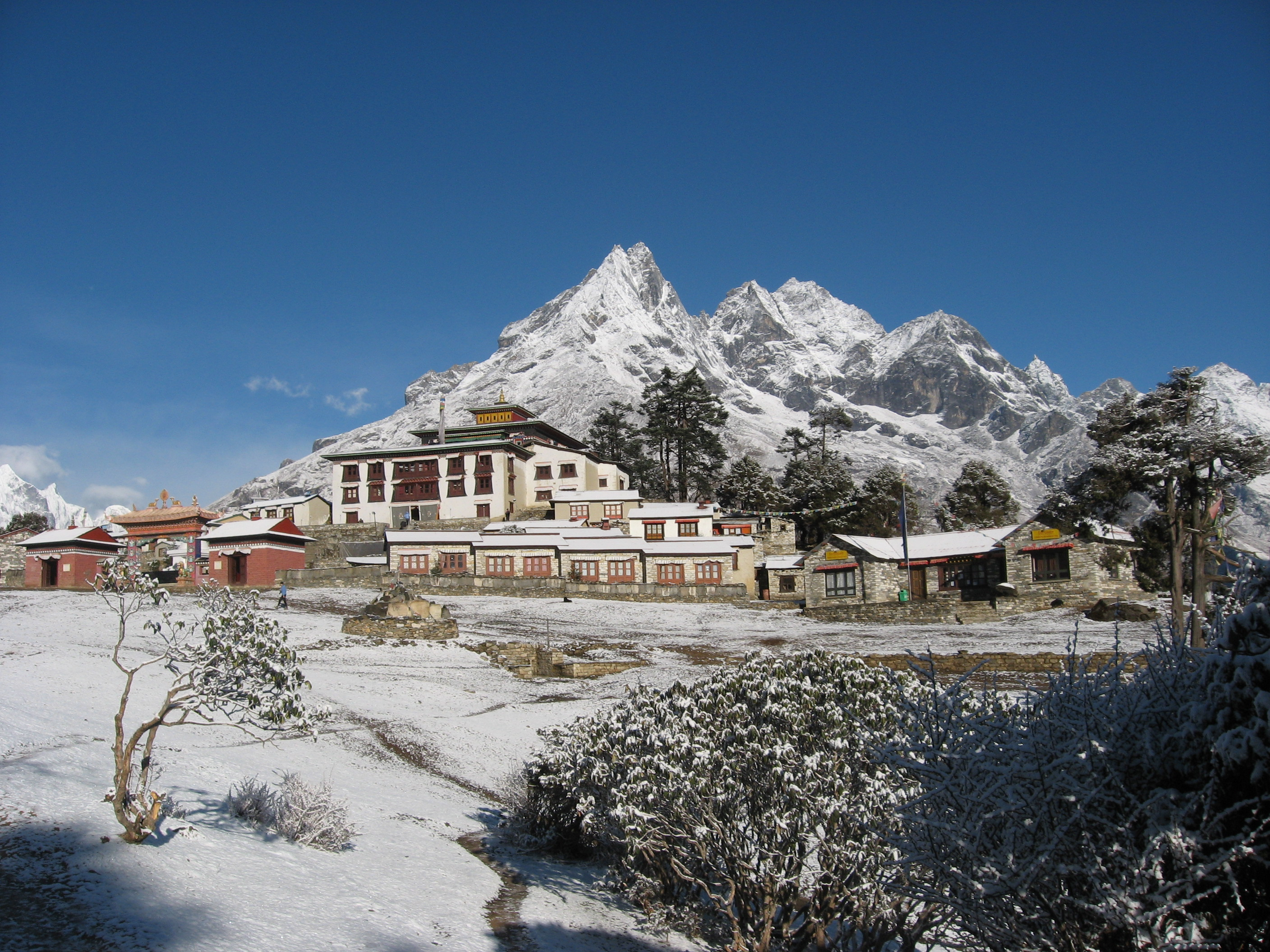 Tengboche Monastery April 2011 - Nepal